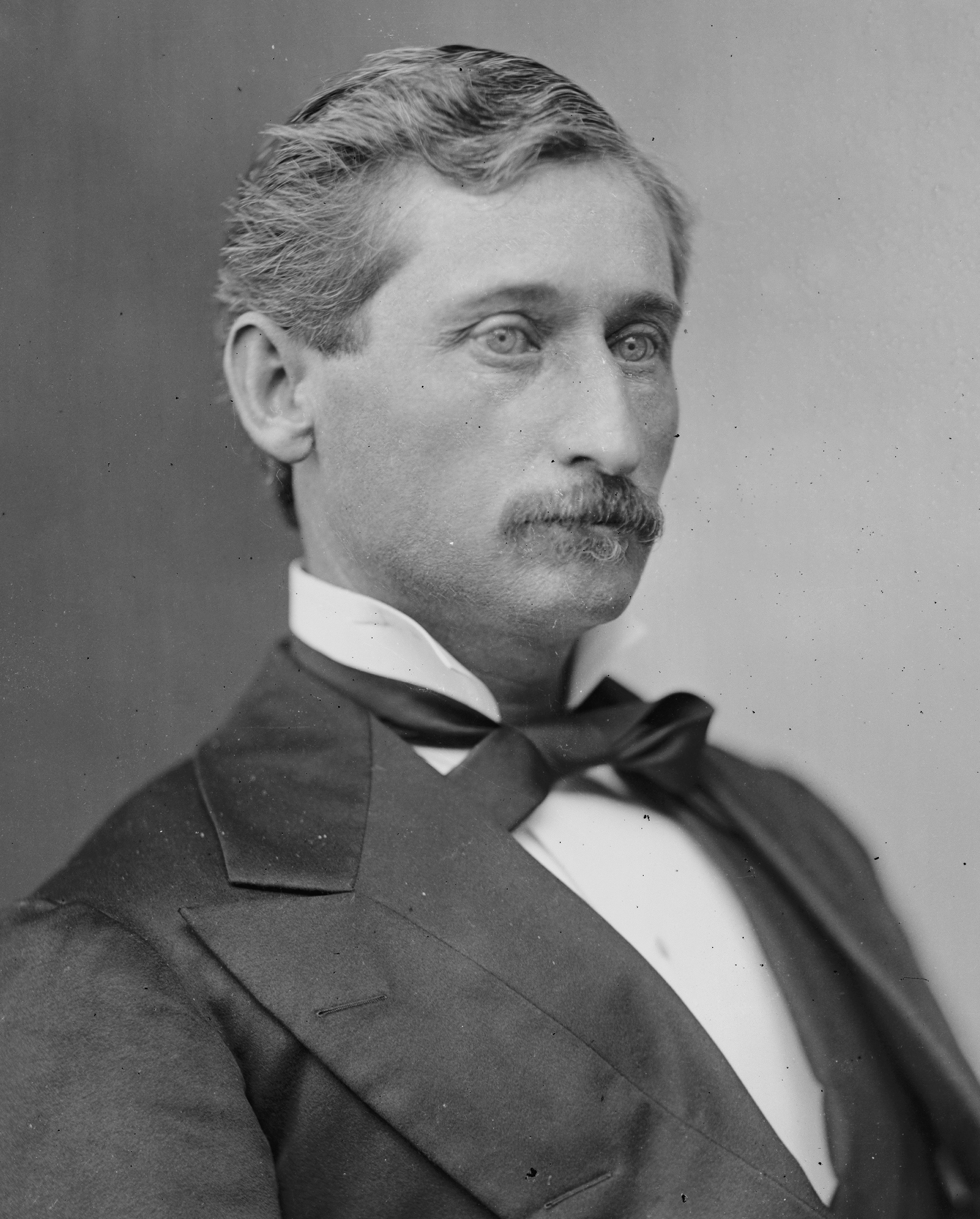 Henry L. Muldrow, US Representative from Mississippi